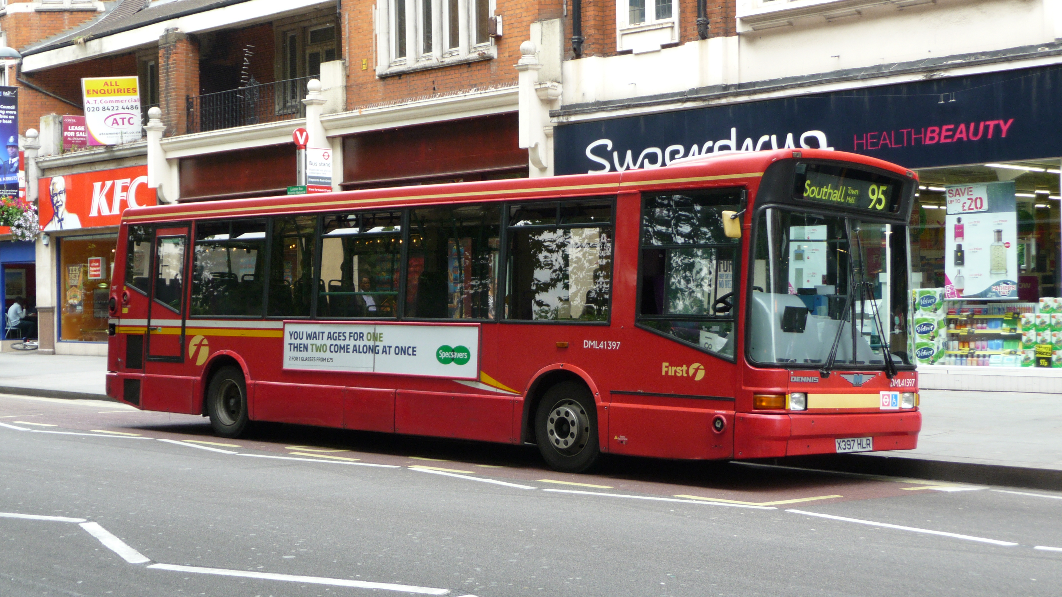 First London DML41397 (X397 HLR), a Dennis Dart SLF/Marshall Capital in Uxbridge Road, Shepherd's Bush, London, on route 95.